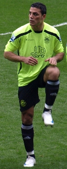 Amr Zaki, croppped from Chelsea vs Wigan